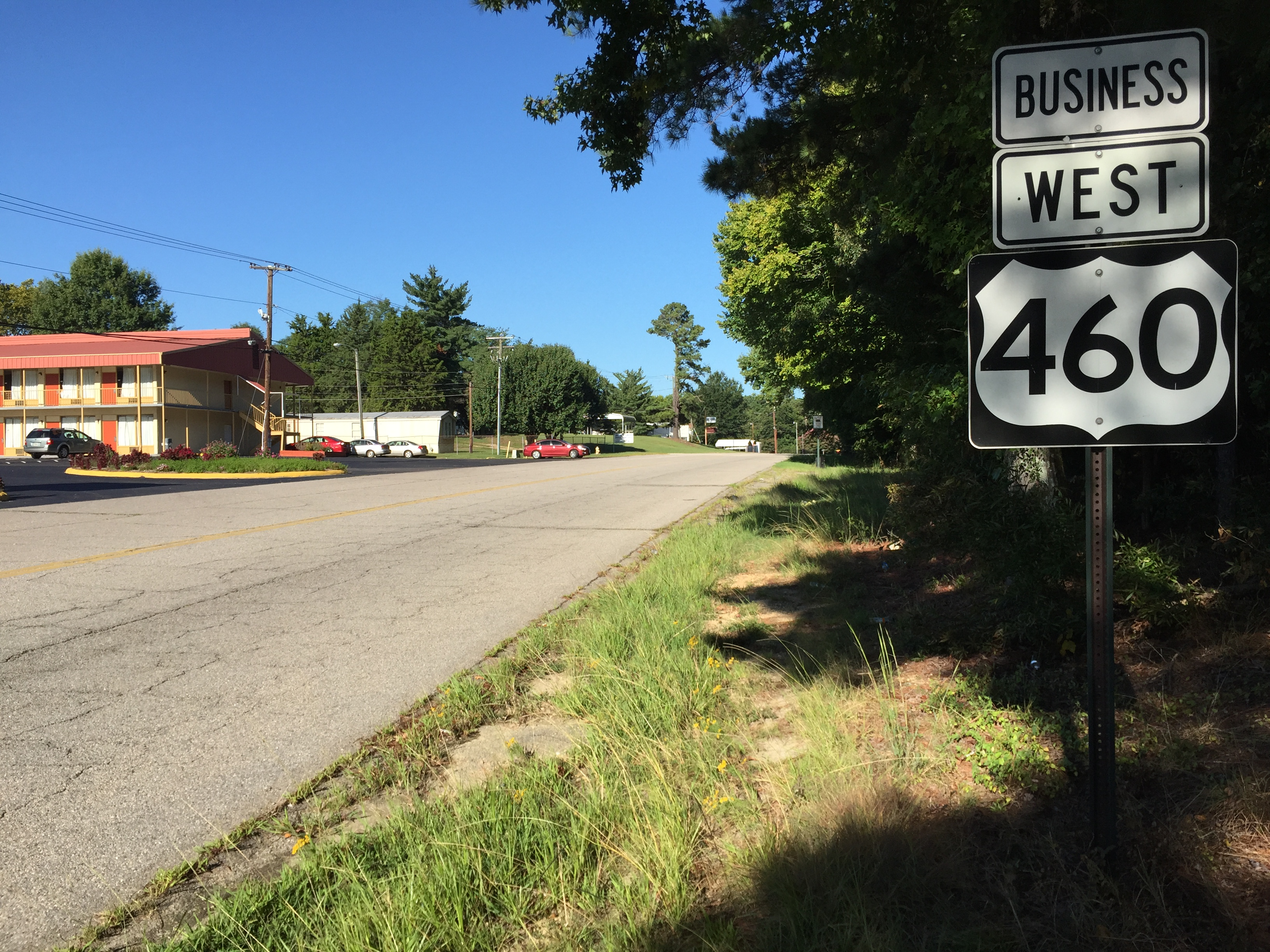 View west along U.S. Route 460 Business (Winfield Road) at County Drive in Petersburg, Virginia